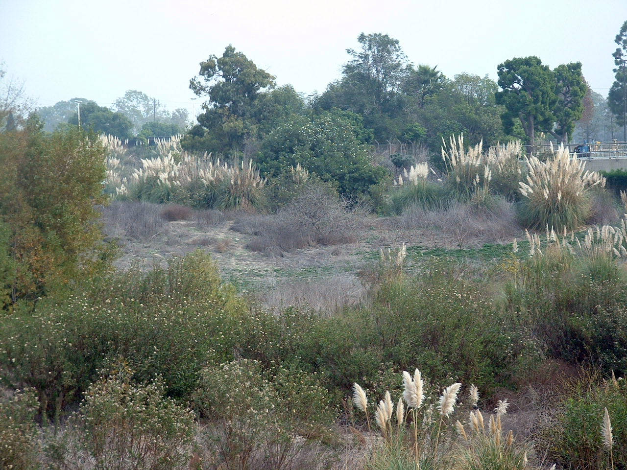 Park land in Los Angeles County, California Prior to being photoshopped by unknown third parties, this photo was a photo of a quiet area within the Los Angeles County Parks and canal system, Los Angeles County, California, United States.